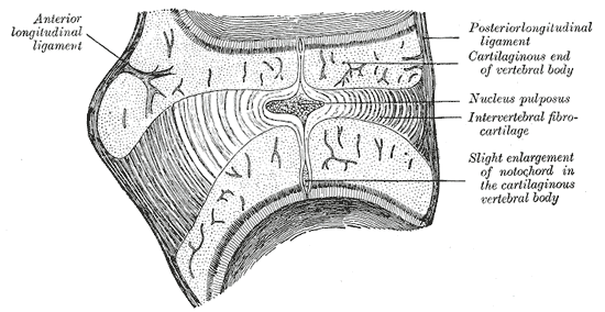 Sagittal section through an intervertebral fibrocartilage and adjacent parts of two vertebrae of an advanced sheep's embryo.